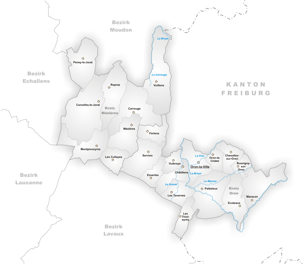 Municipalities of District Oron until 2007